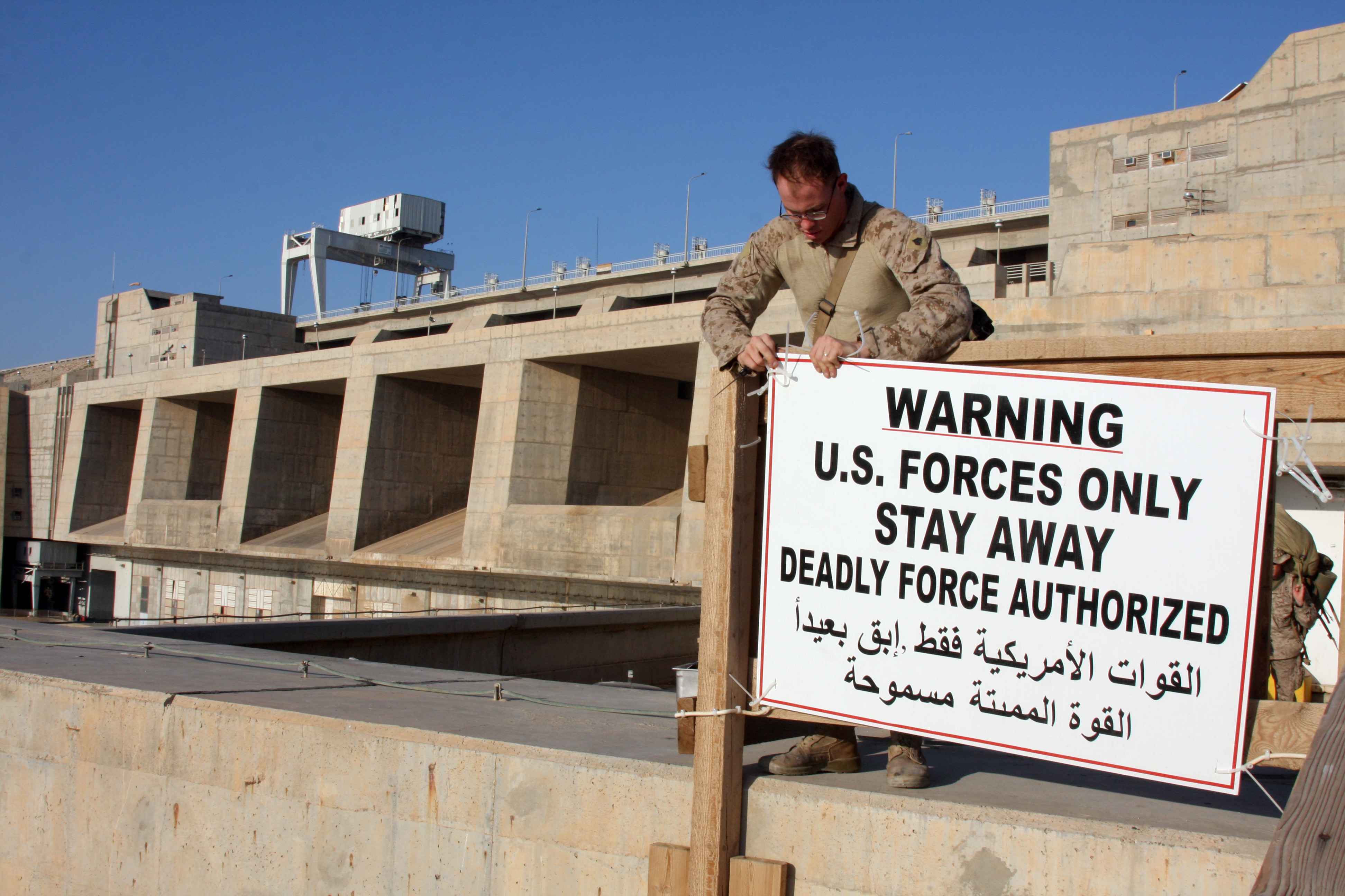 ANBAR, Iraq (Dec. 3, 2008) U.S. Marine Sgt. Tyler Ackermann, assigned to Headquarters Company, Regimental Combat Team 5, takes down a warning sign at the Haditha Dam in Anbar Province, Iraq. The Marines are returning control of the Haditha Dam back to the Iraqi people. U.S. Marine Corps photo by Cpl. Tyler W. Hill (RELEASED)